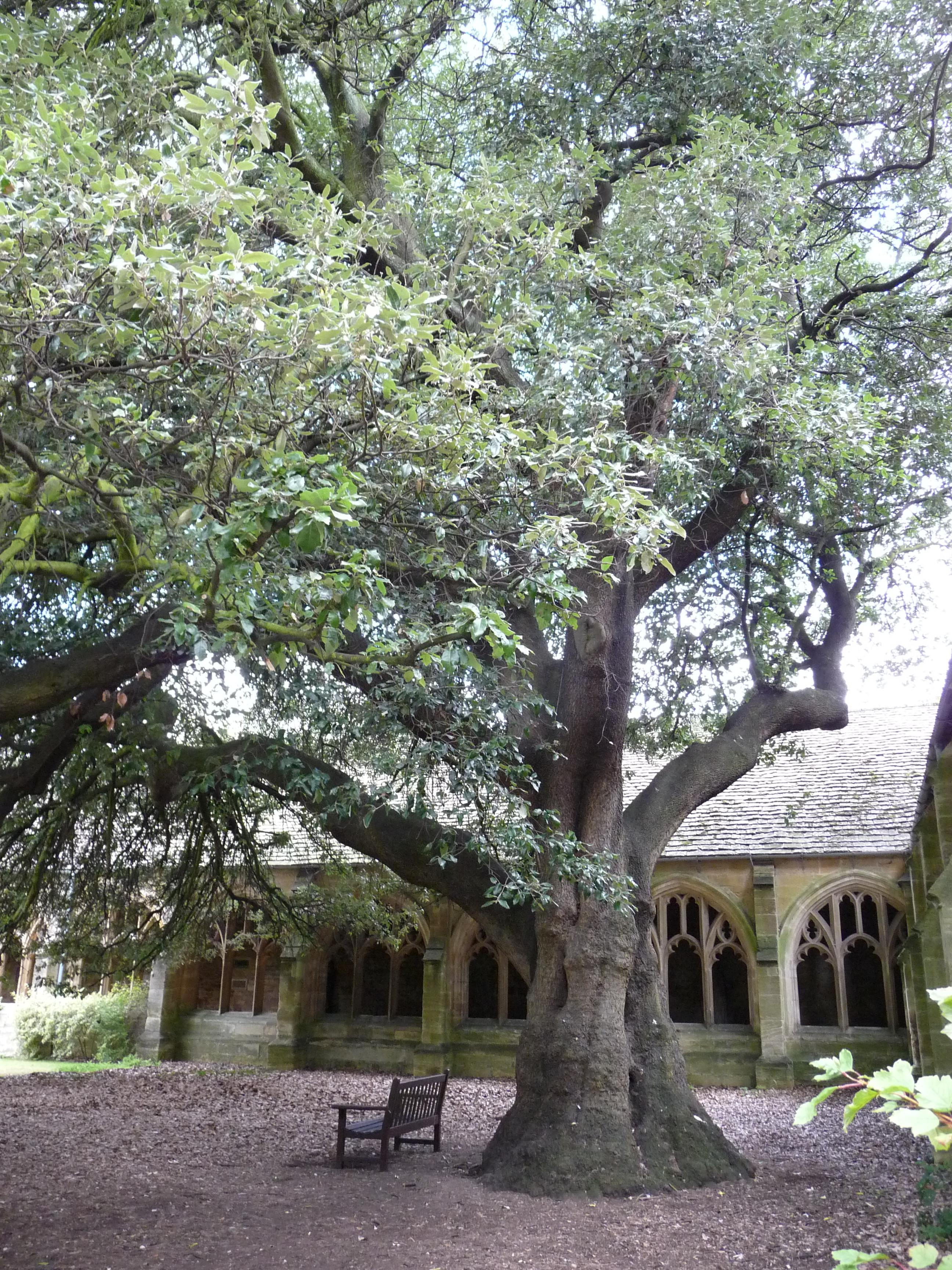 New College, Oxford